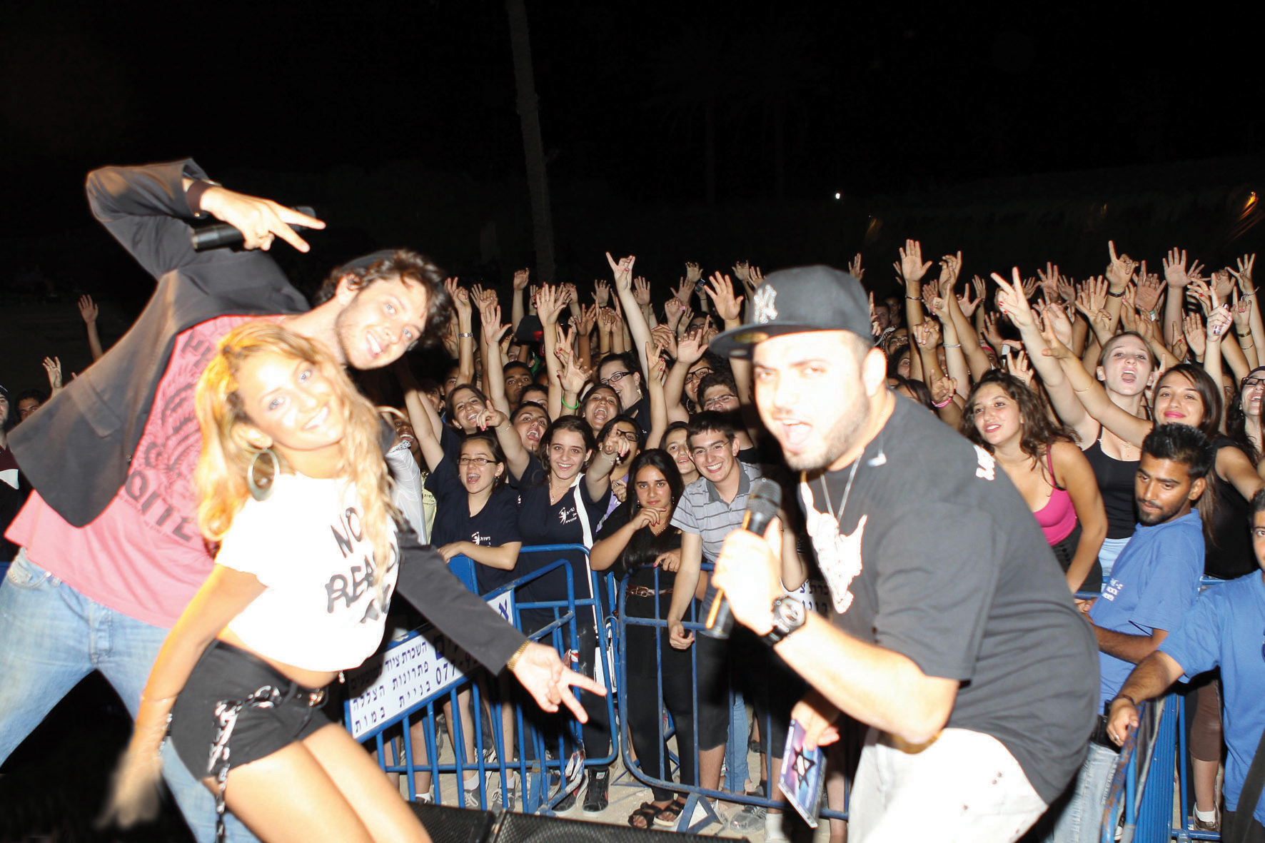 subliminal, metro and hurican in a show